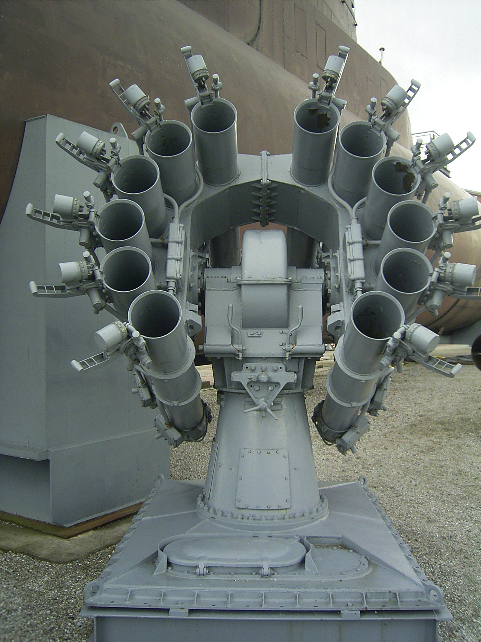 Soviet RBU-6000 depth-charge launcher with RGB-60 depth-charge. Range 300 - 5500 m effective against submarines and acoustic Torpedoes. Total weight of the charge 113,5 kg (pay-load 23,6 kg)